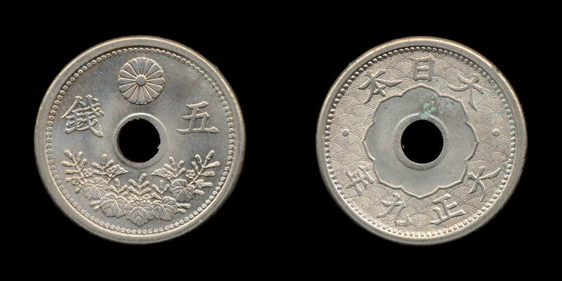 5sen-T9